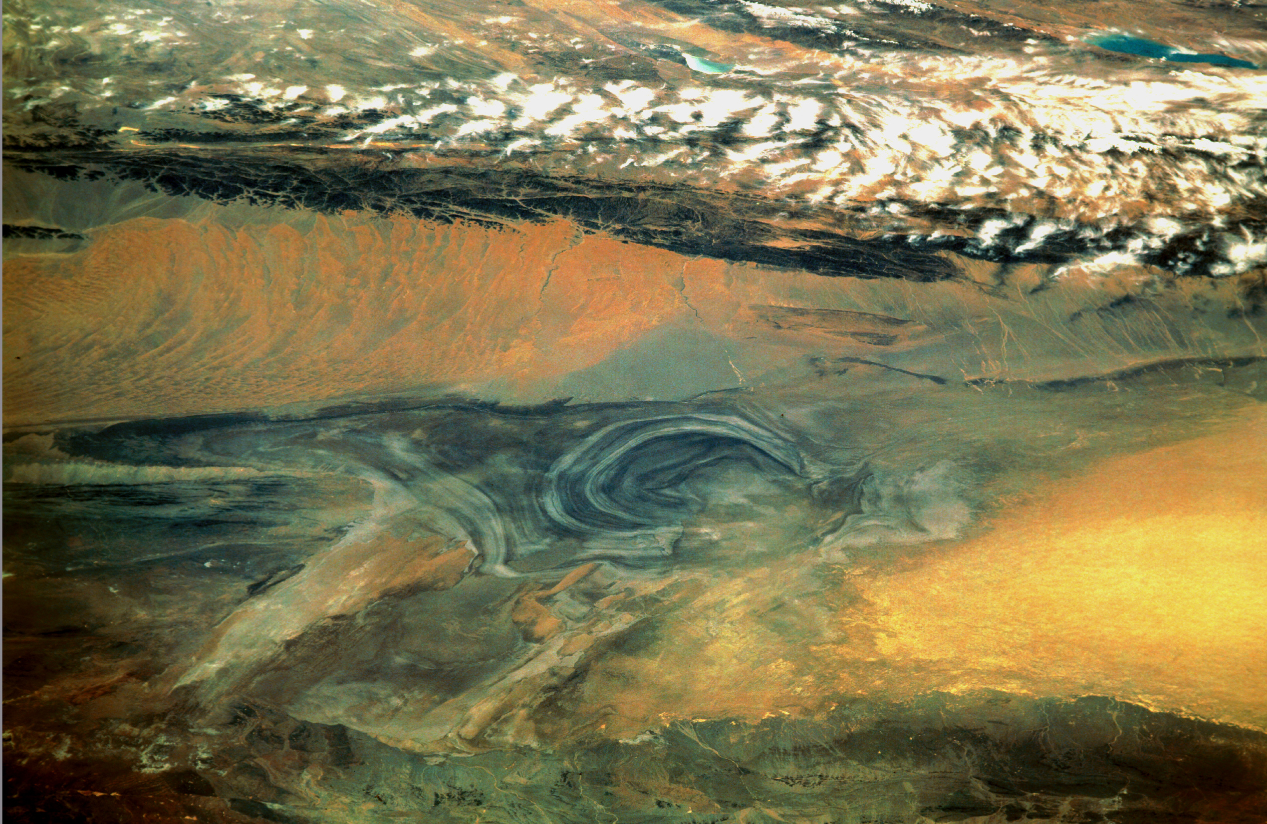 China, Xinjiang, desert Lop Nur. Satellite picture of the Basin of the formerly sea Lop Nur in the Desert of Lop. In the foreground Kuruktagh, in the background Kumtagh and Astintagh. A duststorm is blowing to the west over the Desert of Lop. Two lakes appear in a break in the clouds covering the Plateau of Astintagh. Visible are elongated Ayakkum Hu Lake south-southwest of Lop Nur and small blue-green Gas Hu Lake.